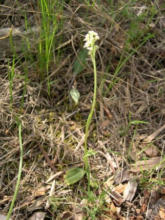 A work released per the GNU Free Documentation License by: Jorge (J.J.) Valencia- Spain